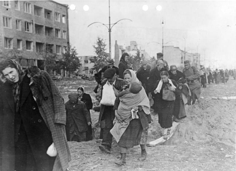 Warsaw Uprising: Evacuation of people from Mokotów district. Photo in front of buildings at Puławska 116 and 118 street.